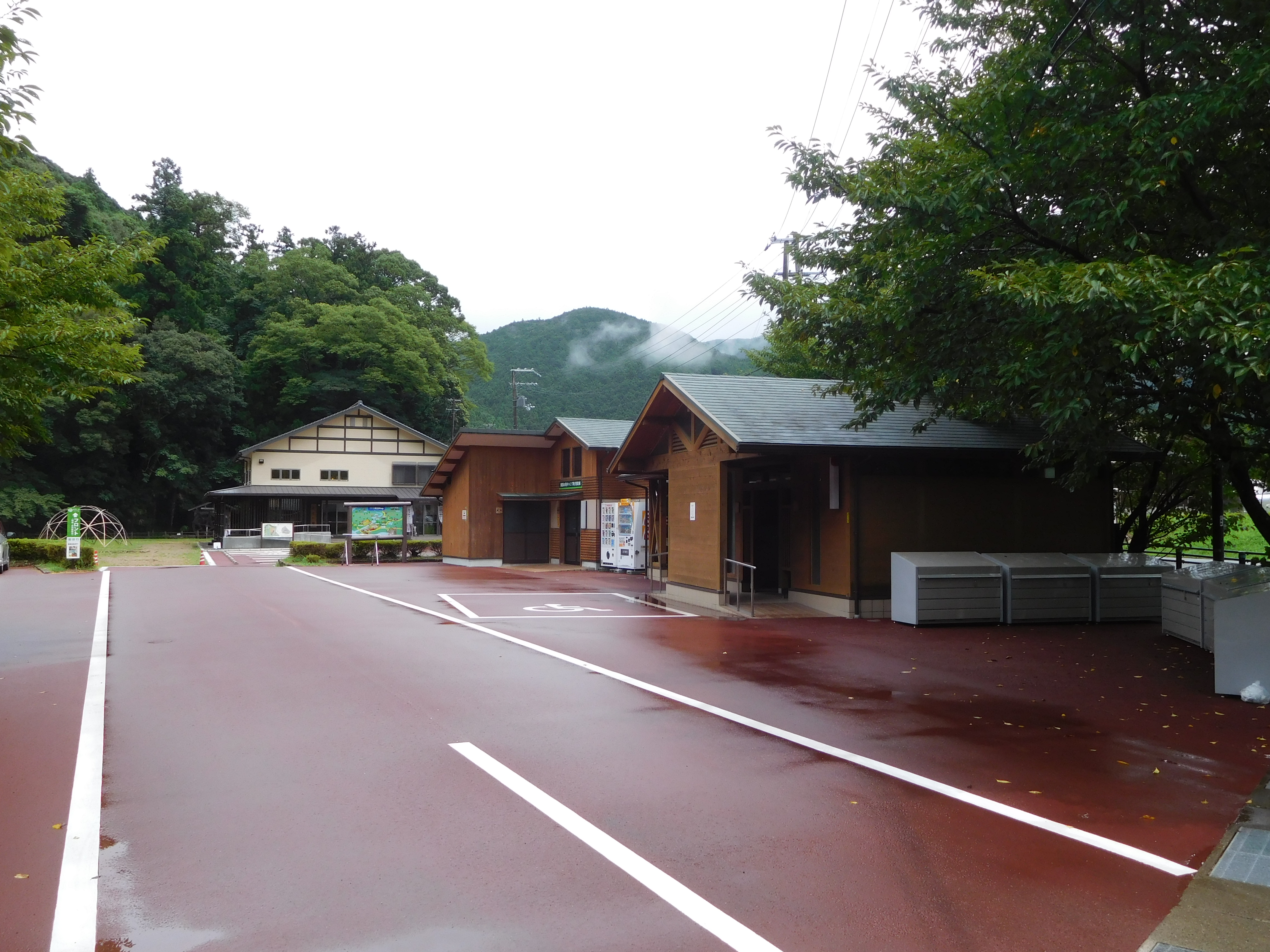 This is Hisetsu Falls Campsite in Kiho, Mie, Japan.